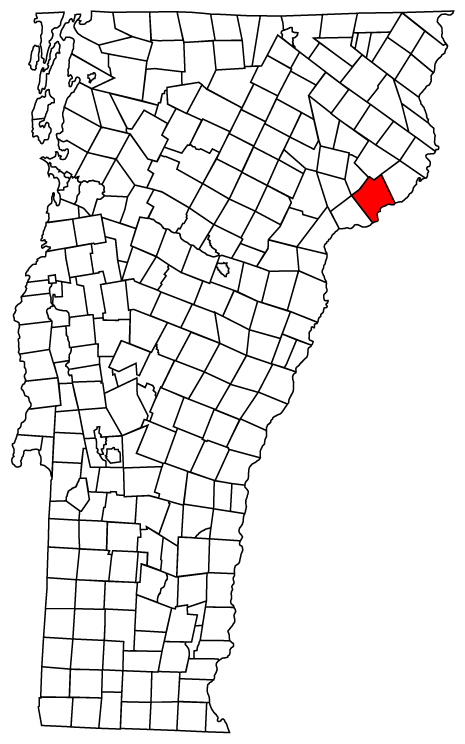 Description: Map of Vermont towns with Concord highlighted Source: Map created by Jared C. Benedict on 26 March 2004. Copyright: © Jared C. Benedict.